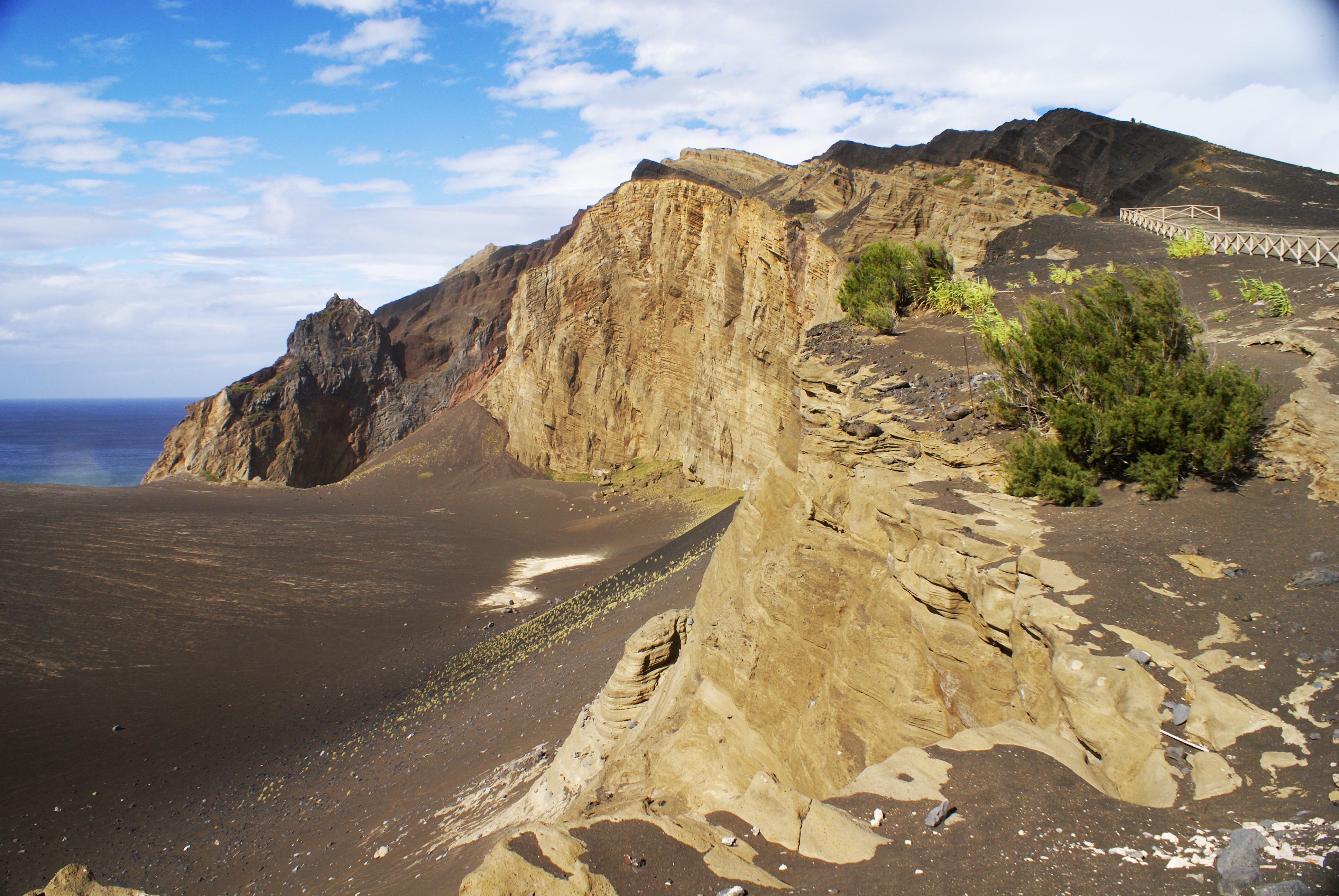 Costa do Nau, alongside the Capelinhos Volcano, Capelo, Faial (Azores), Portugal